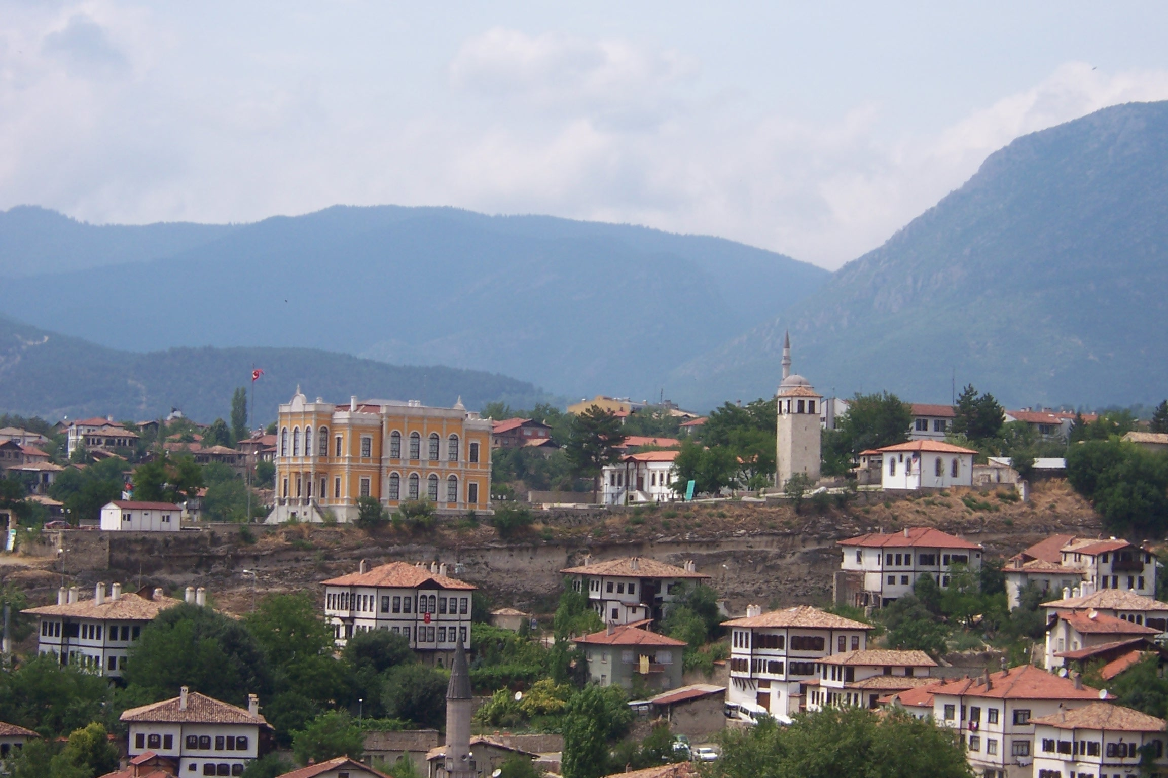 Old Government Building and Clock Tower in Safranbolu, Karabük, Turkey